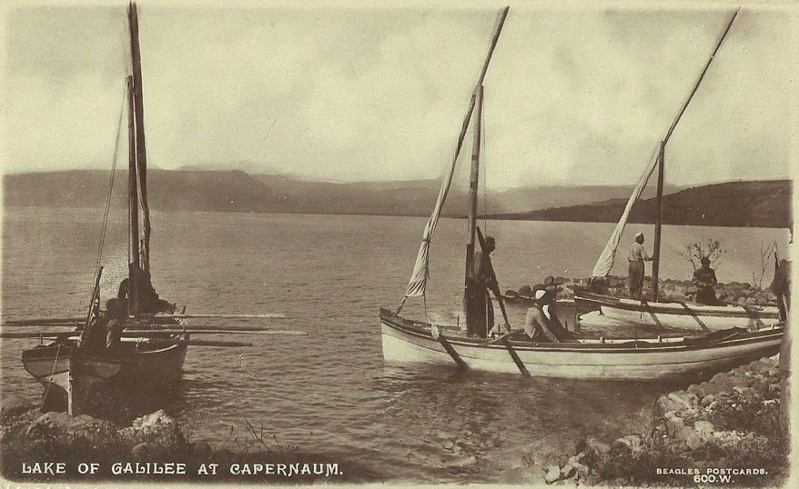 Al-Samakiyya